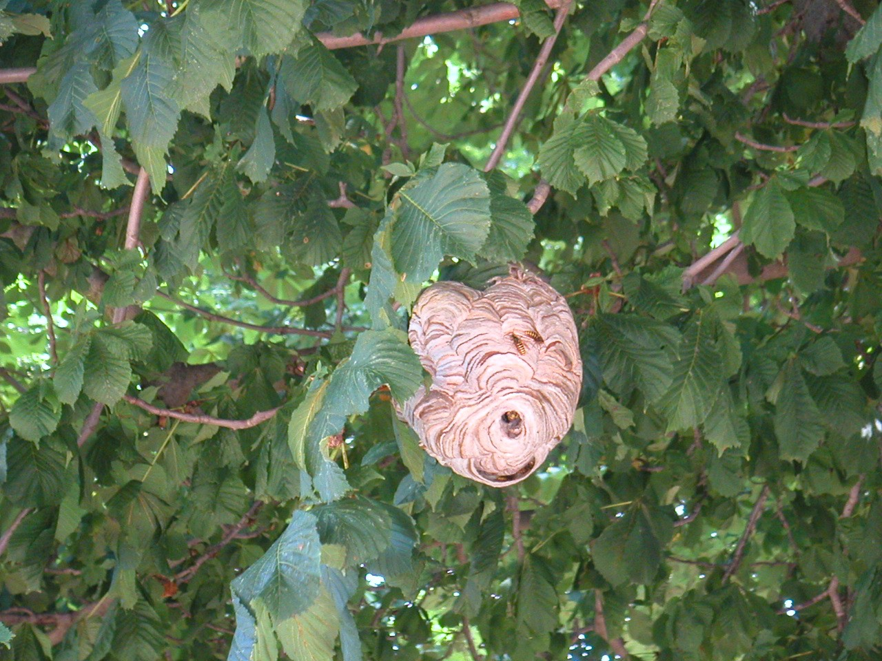 Nest of Dolichovespula media, Germany